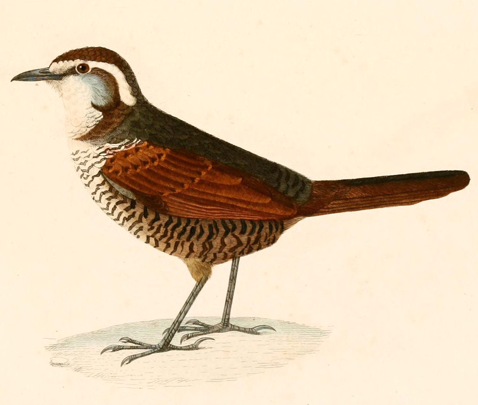 « Megalonix albicollis » = Scelorchilus albicollis (White-throated Tapaculo)